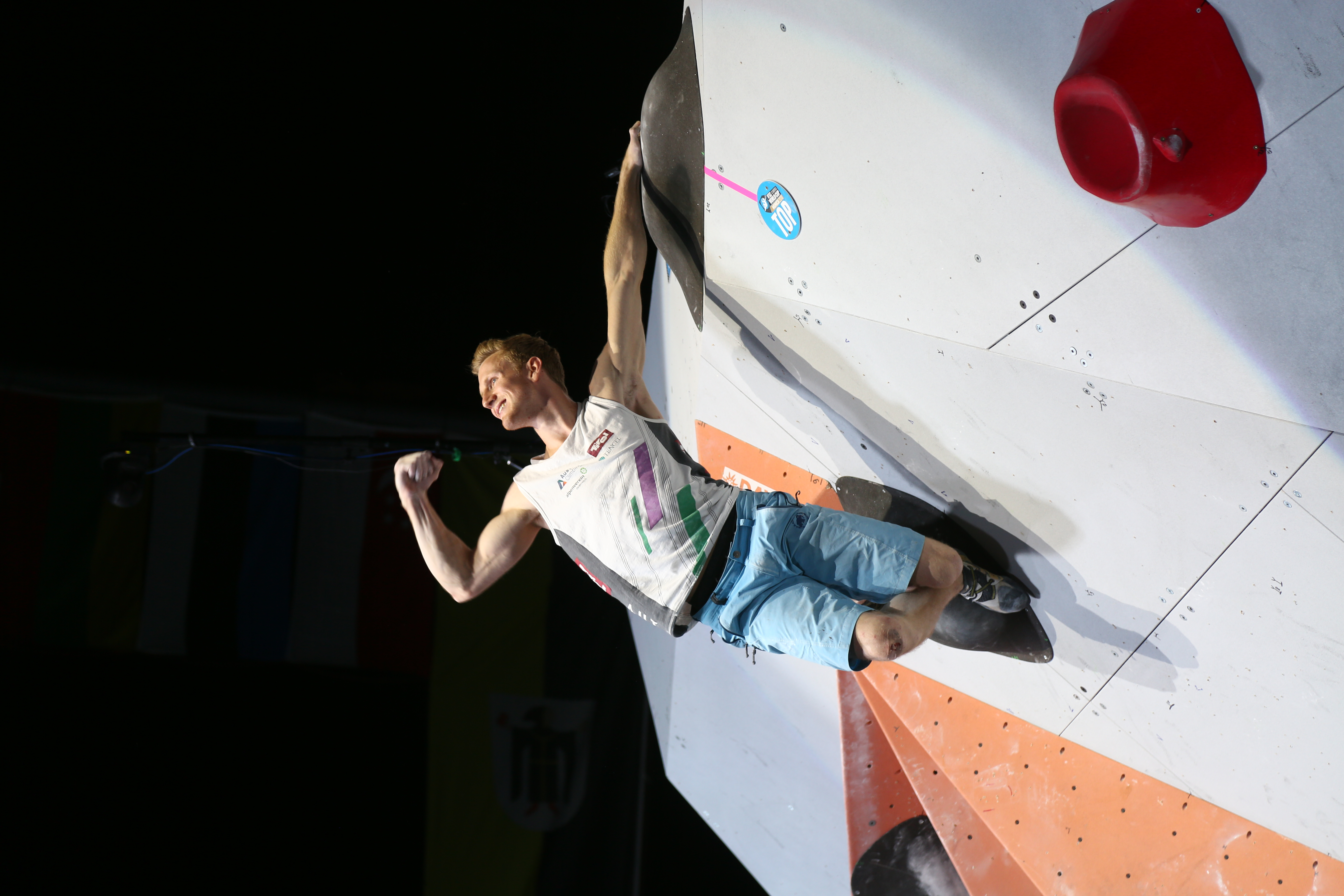 Boulder Worldcup 2018, Final Event in Munich 2018-08-18, Finals